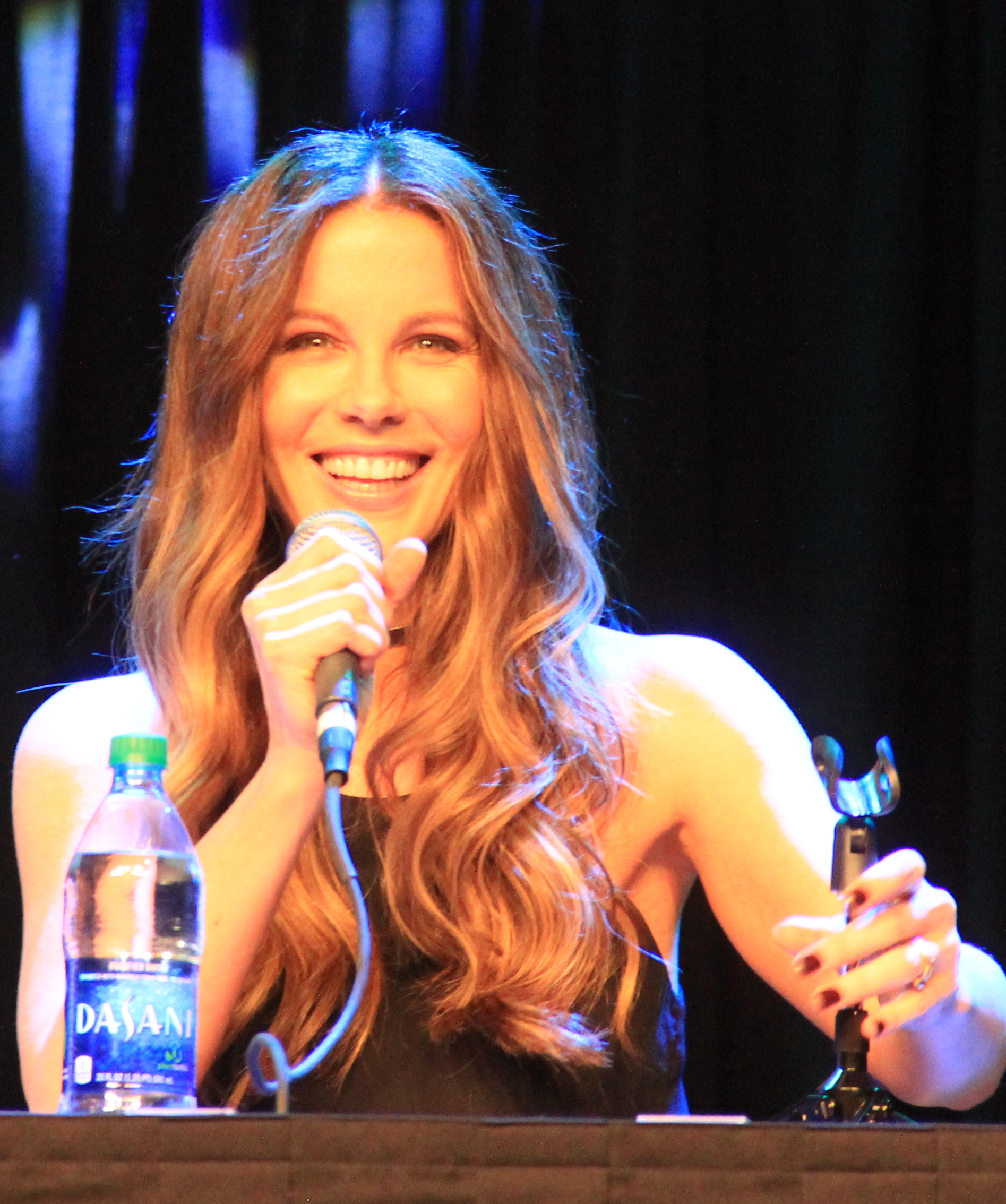 Kate Beckinsale at the Comicpalooza 2016